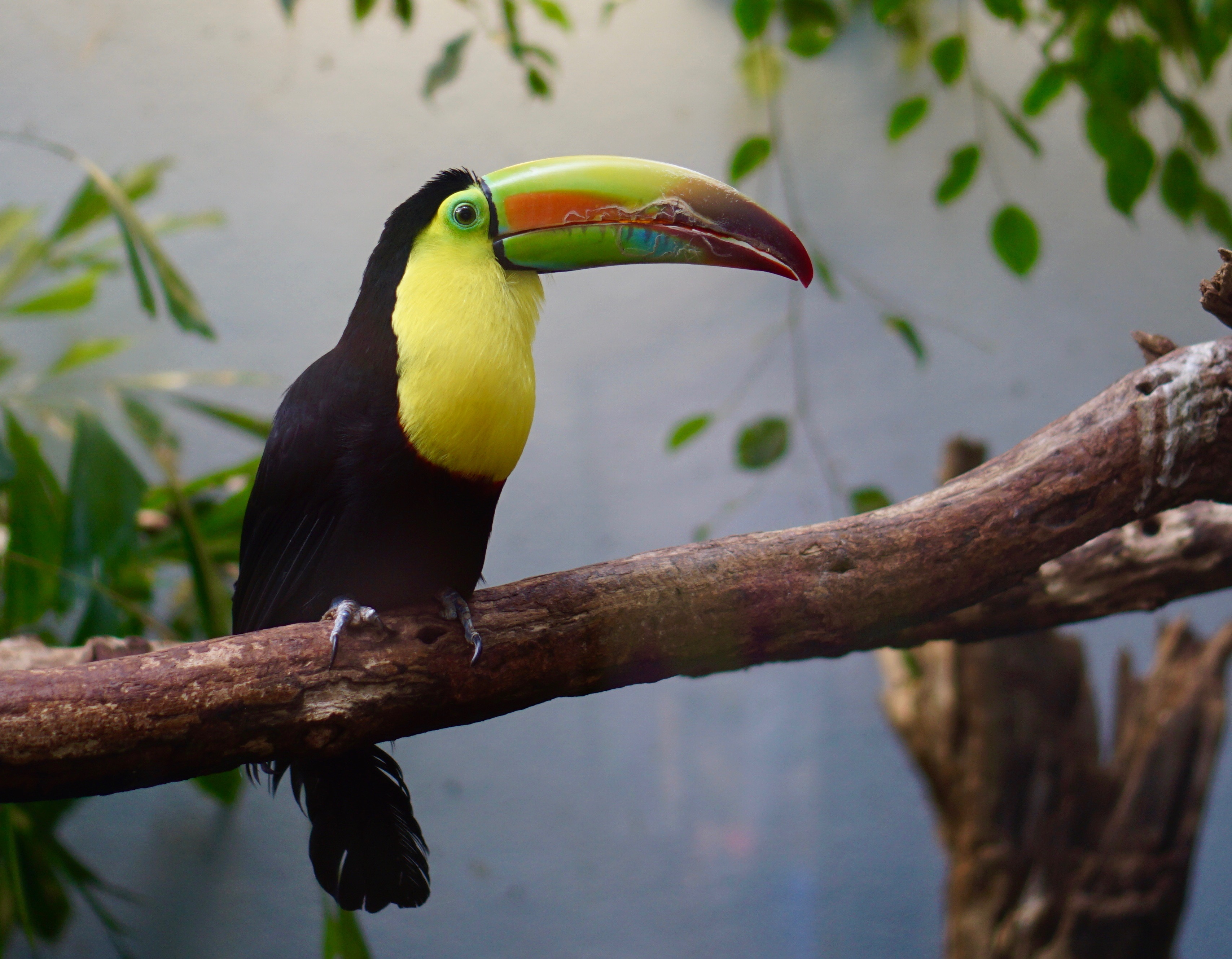 Toucan at the National Aviary